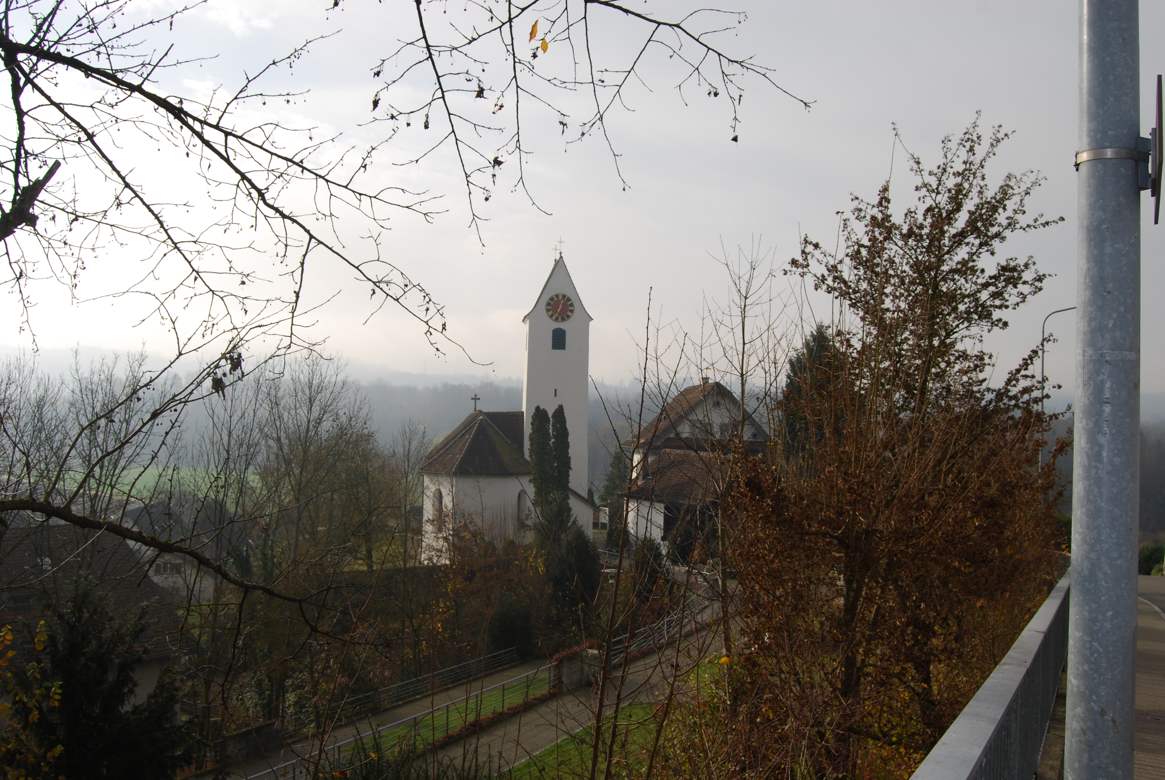 Church of Eggenwil, canton of Aargau, SwitzerlandEsperanto: Preĝejo de Eggenwil, Kantono Argovio, Svislando